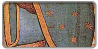 Mergelės apsiaustas